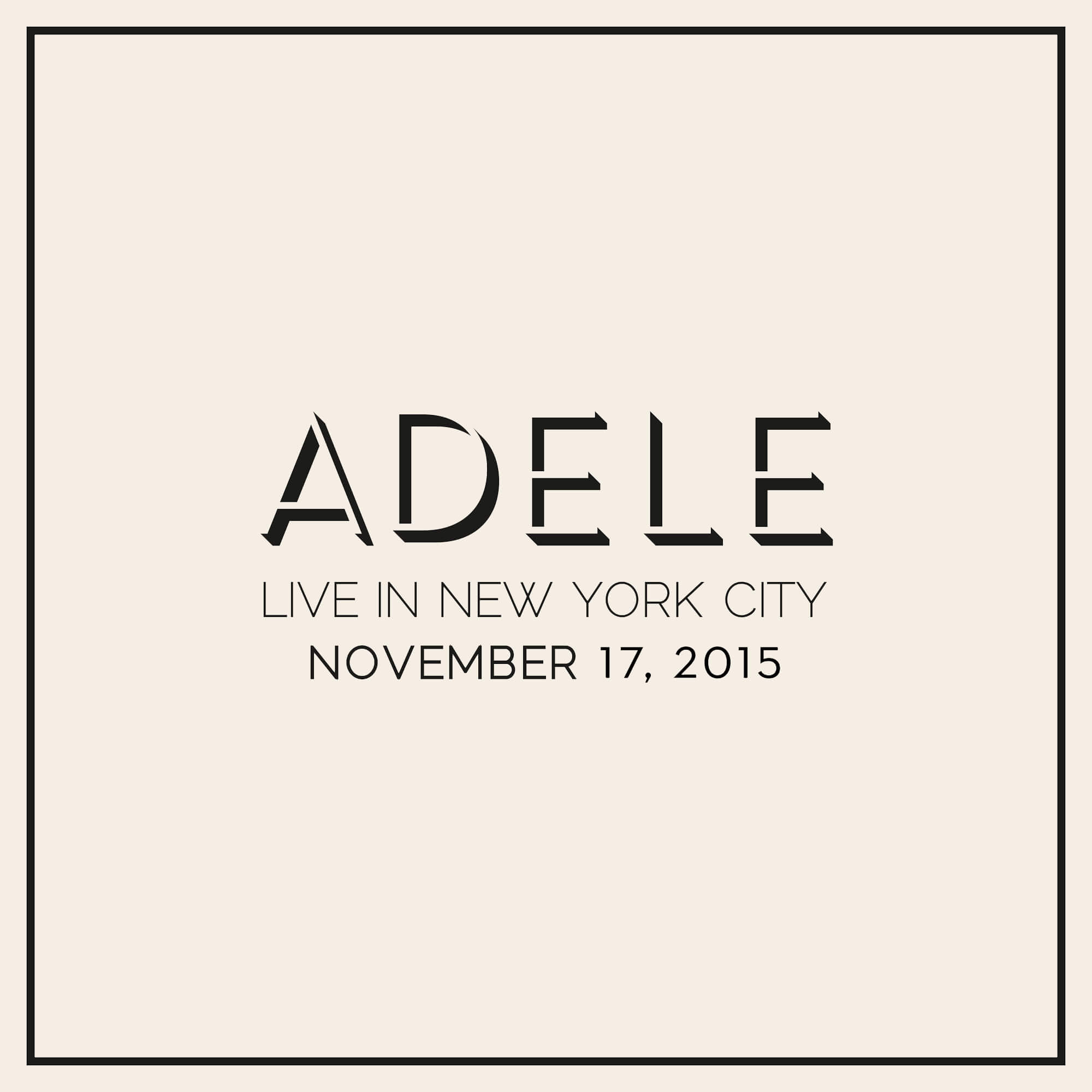 Official flyer promoting Adele in New York City concert